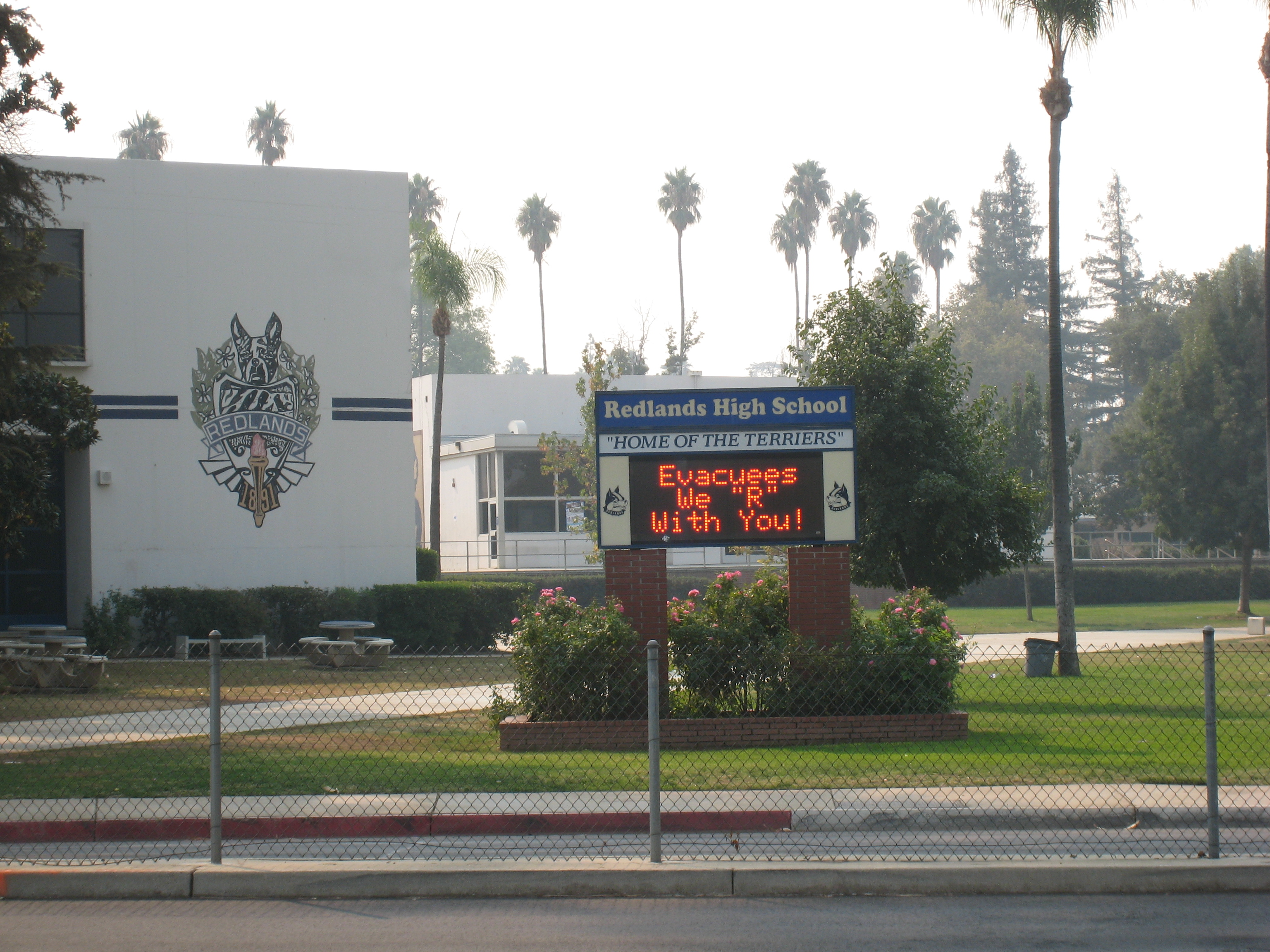 sign at Redlands High School -- 2007 fires